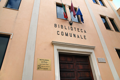 Reggio Calabria: Municipal reference library "Pietro De Nava"